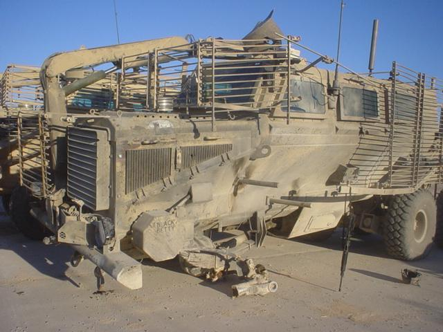 A Buffalo survived an IED that took its two front wheels and axles off.